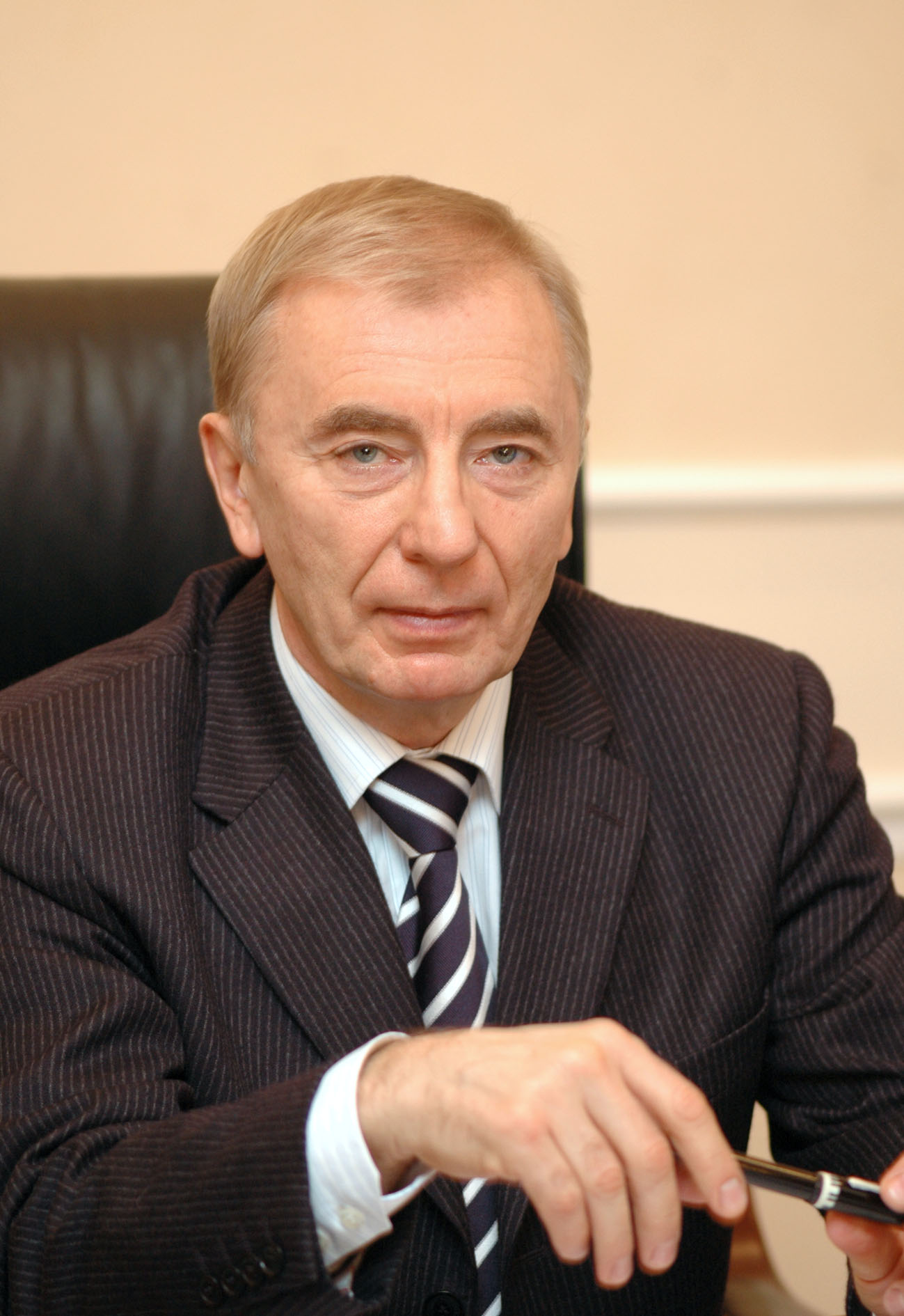 Rogov II